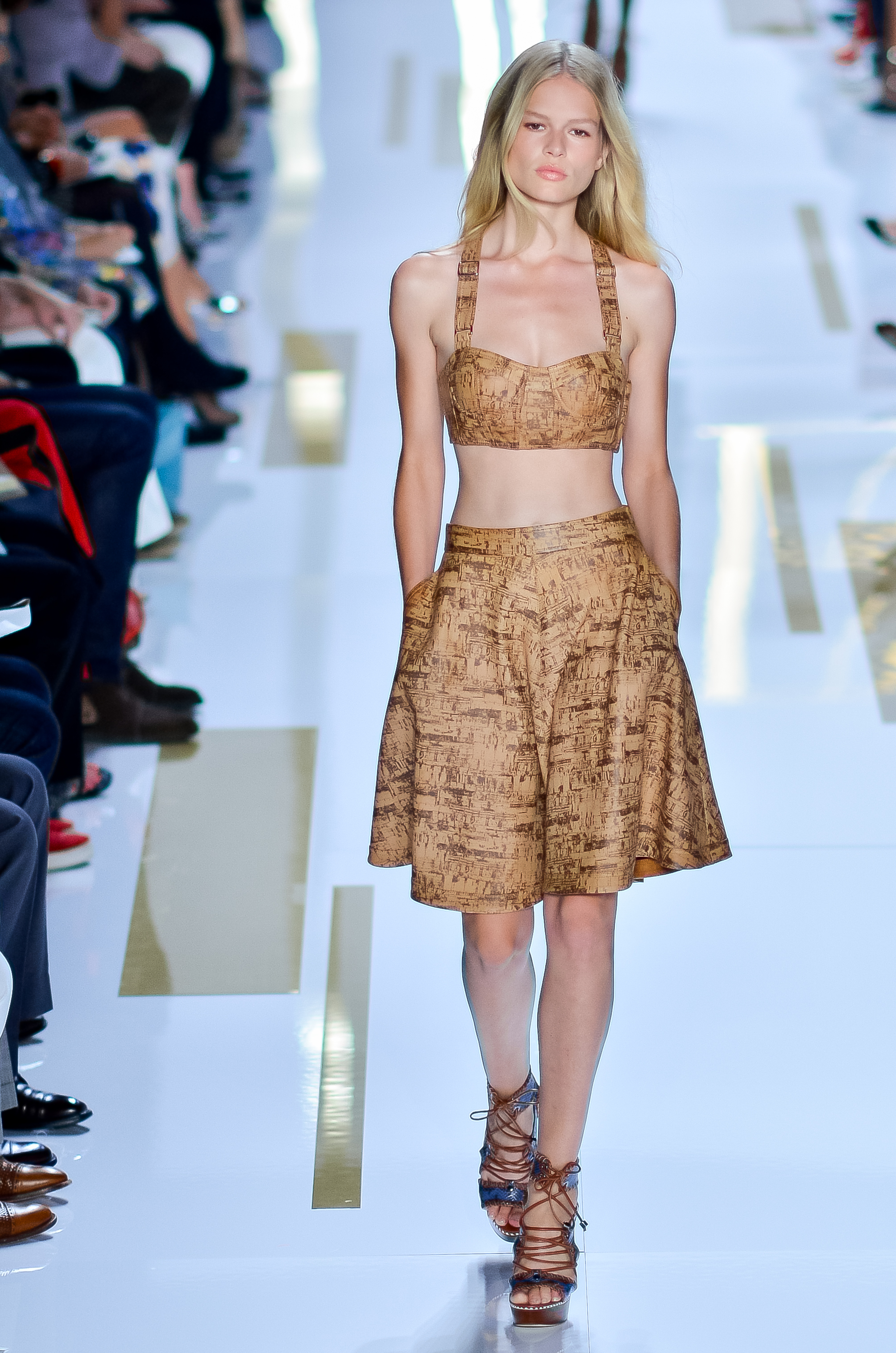 Anna Ewers walks the runway at the Diane von Fürstenberg Spring/Summer 2014 show at New York Fashion Week, September 2013.